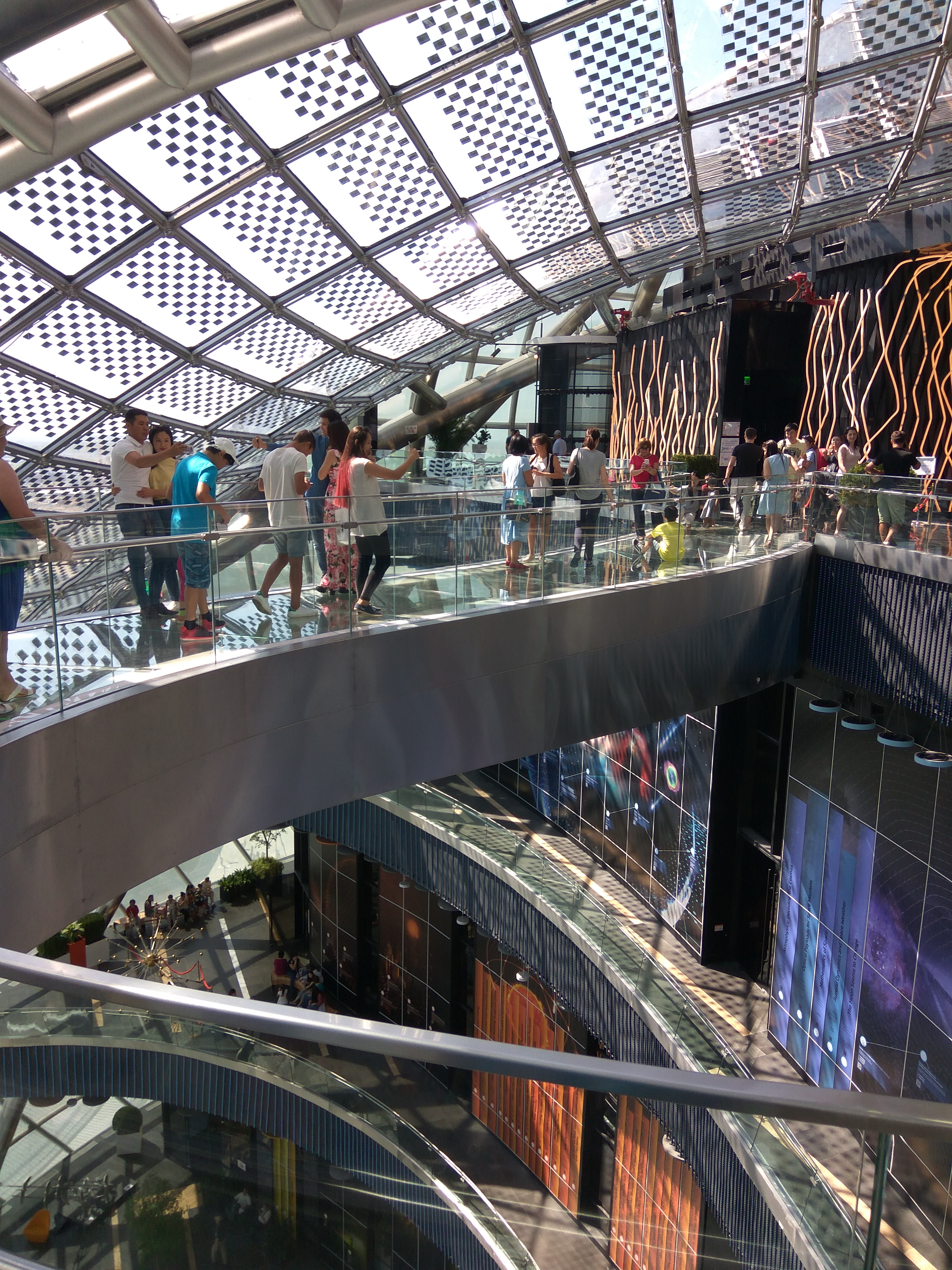 Expo 2017 "Nur Alem" Pavilion Glass Pathway